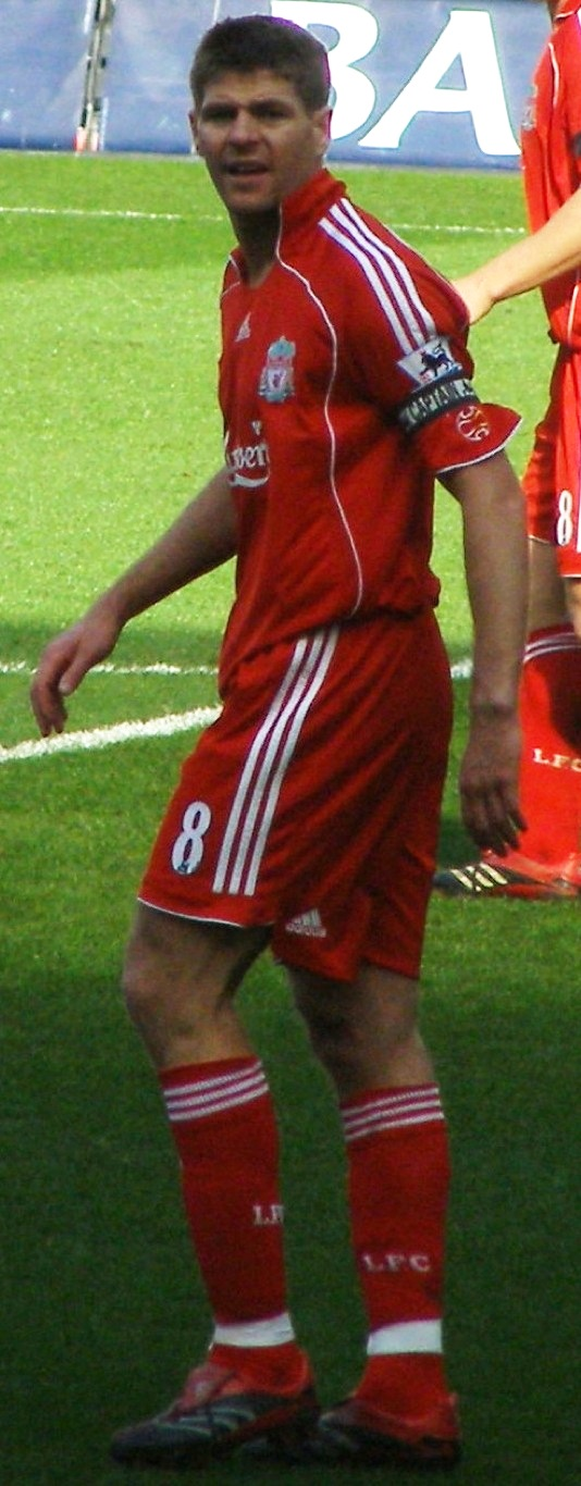 Steven Gerrard playing for Liverpool FC. Cropped from original source.